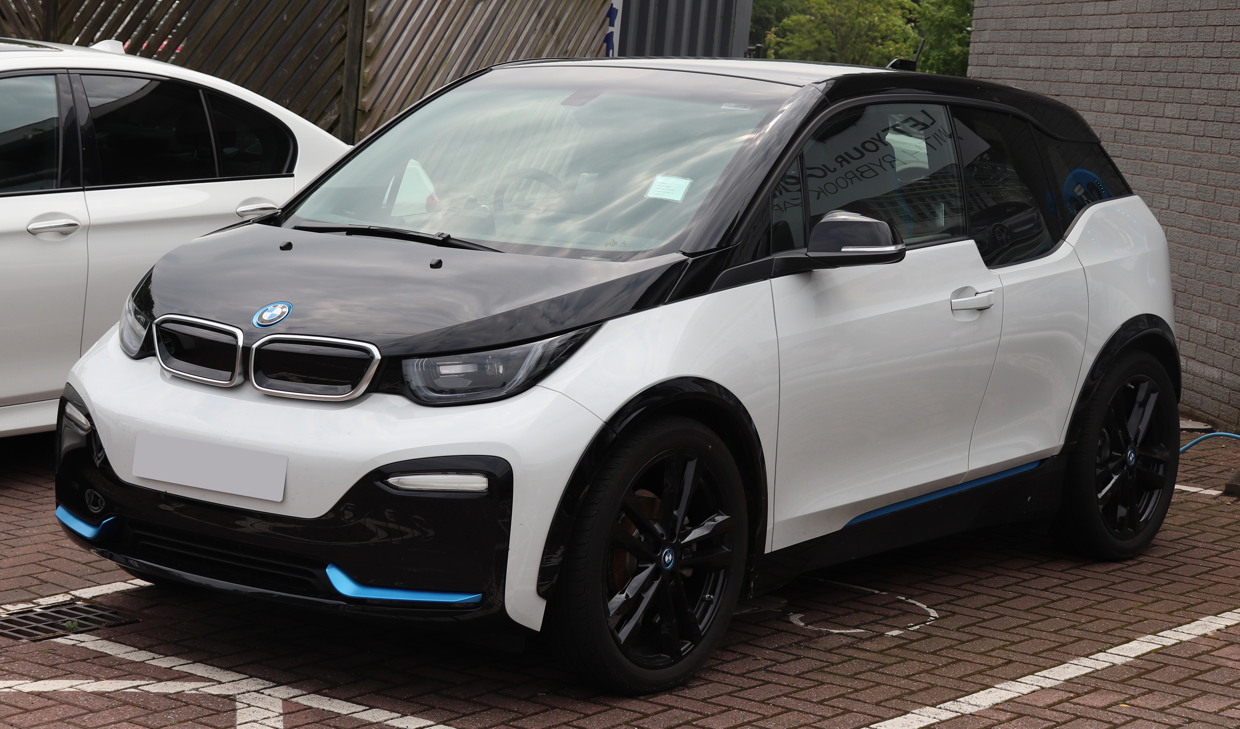 2018 BMW i3S Range Extender Taken in Rybrook BMW Warwick